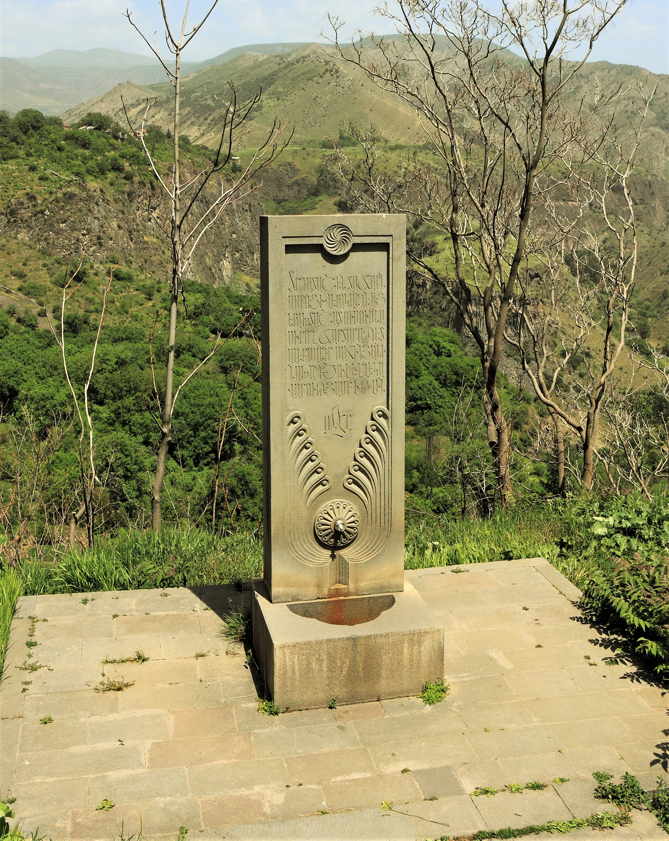 Monument to the Reconstruction of the Temple. Garni, Kotayk Province, Armenia.